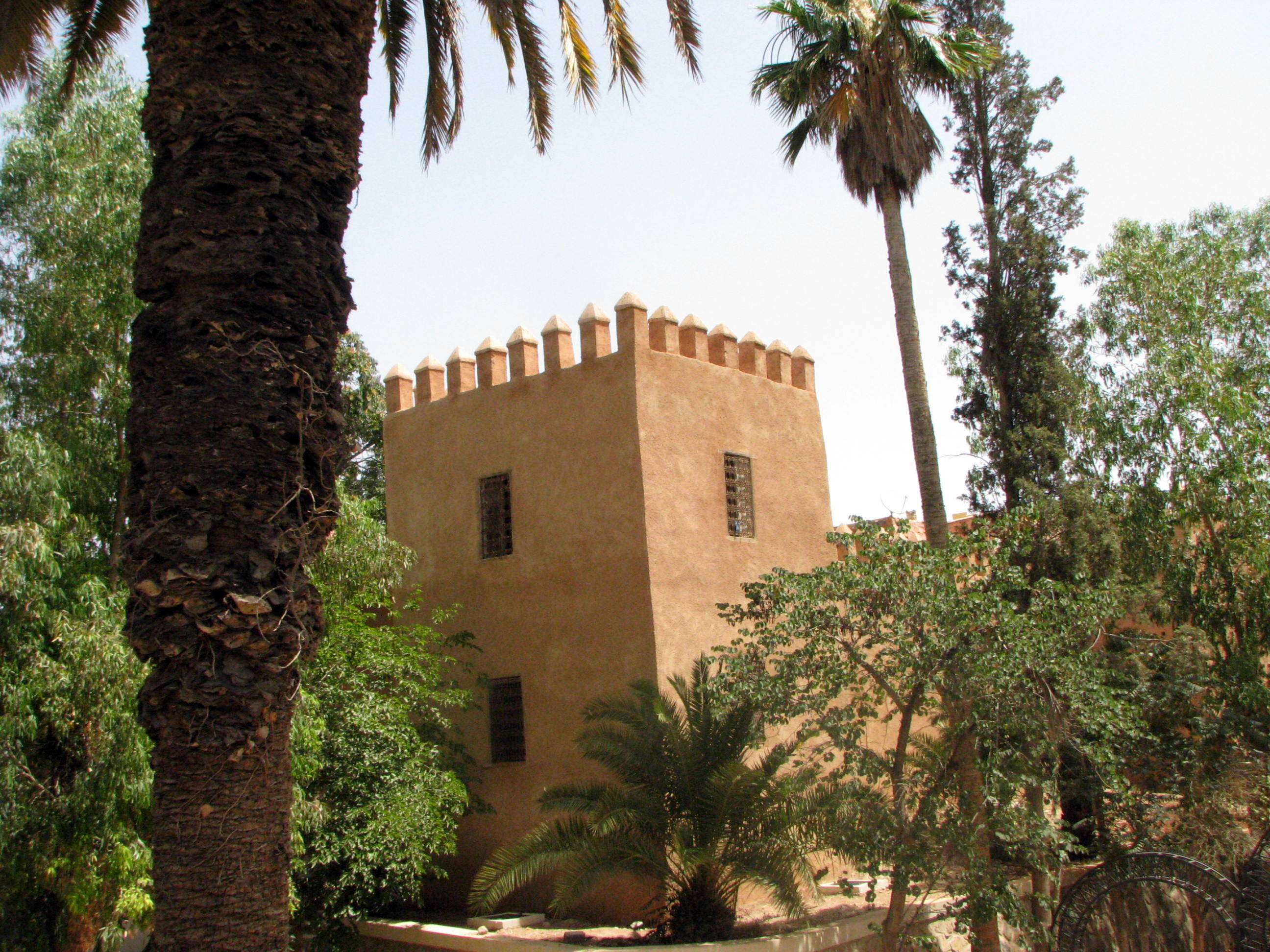 Control tower in medina of Oujda city.